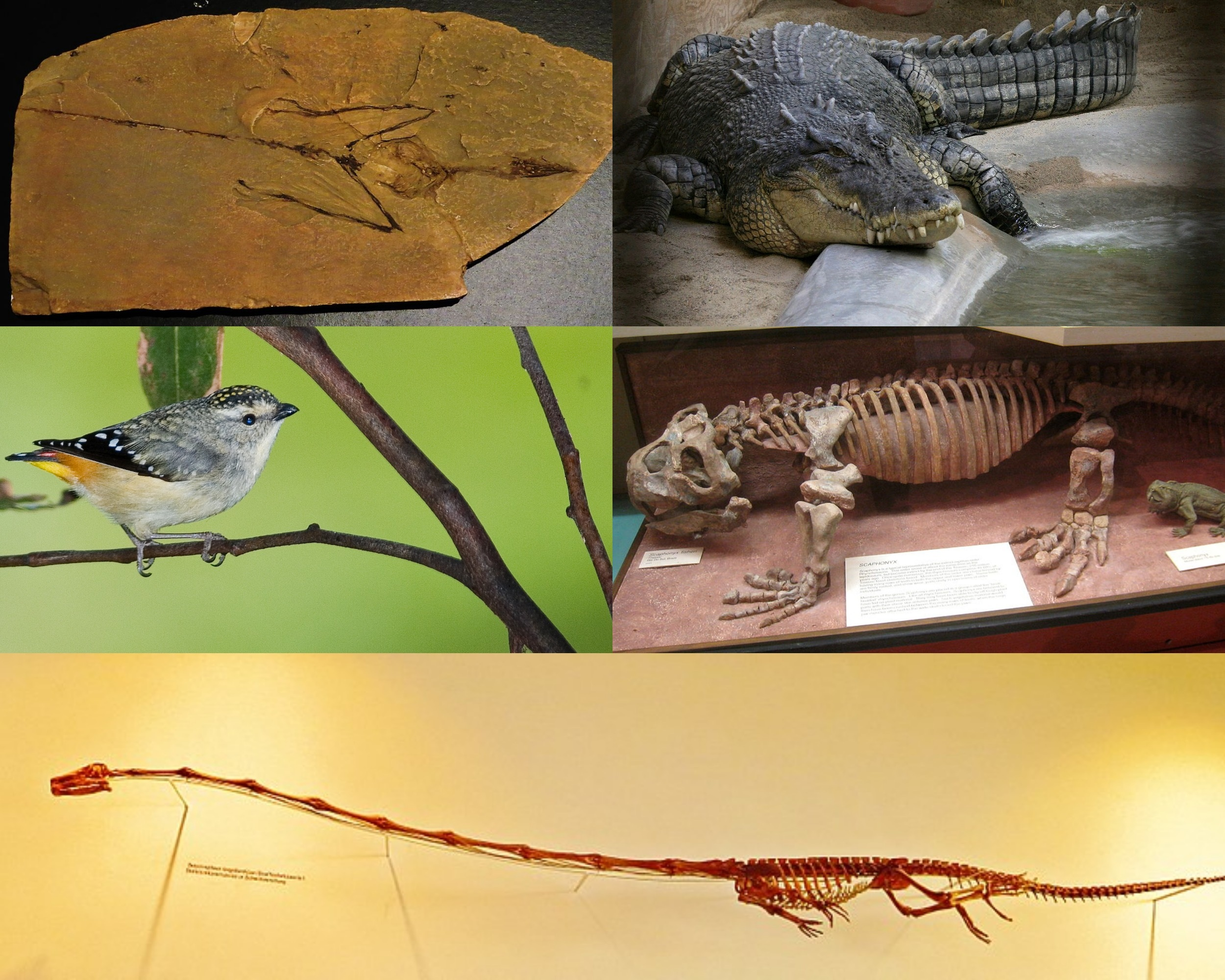 Diversity of Archosauromorpha. Sharovipteryx mirabilis, Caiman latirostris, Pardalotus punctatus, Hyperodapedon fischeri and Tanystropheus longobardicus.